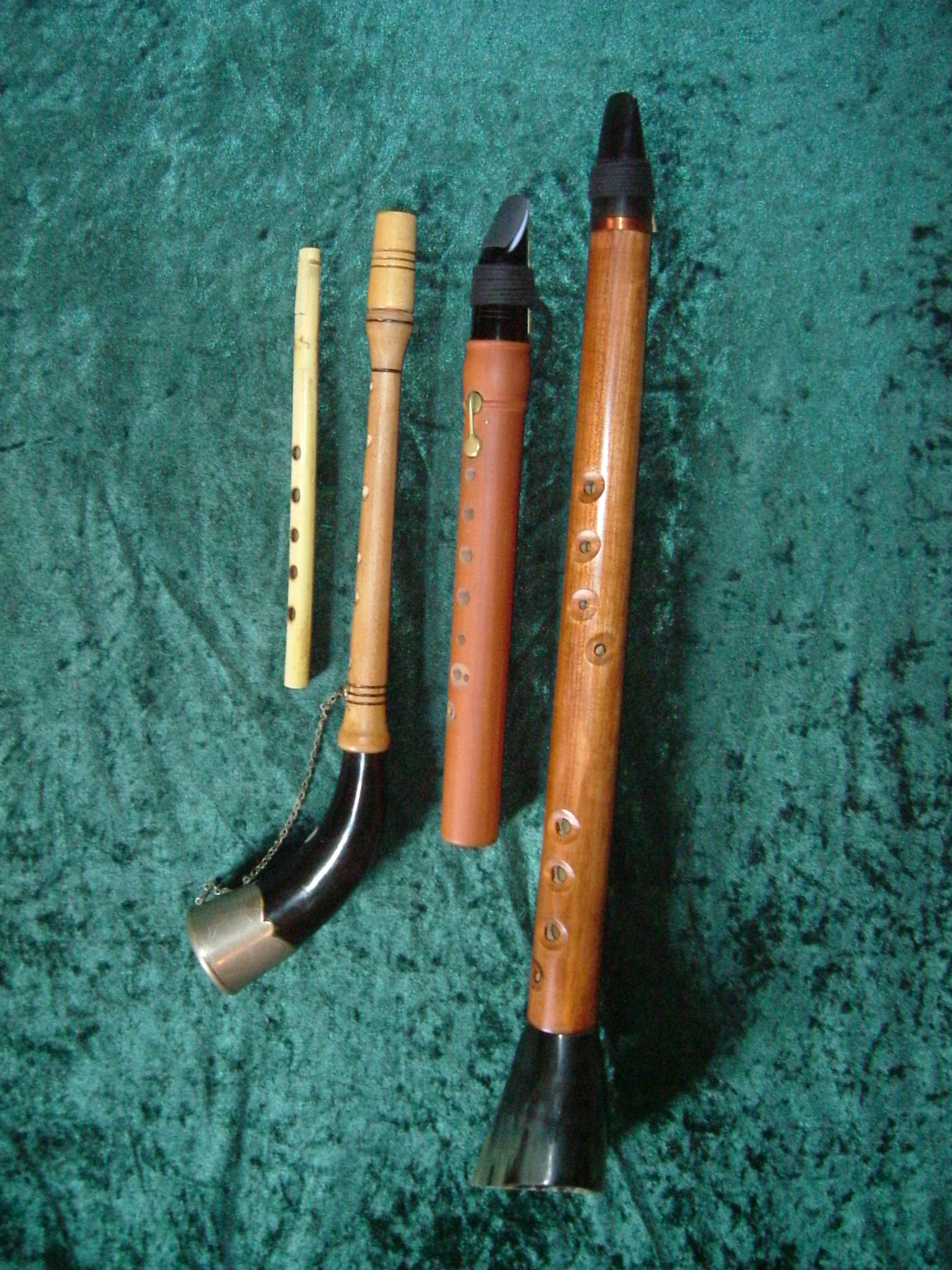 Collection of single reed- and clarinet instruments. From left to right: mandoura (Crete), rischok (Ukraine), chalumeau (modern adaption of an instrument from the 18th century, Central Europe), birbyne (Lithuania)